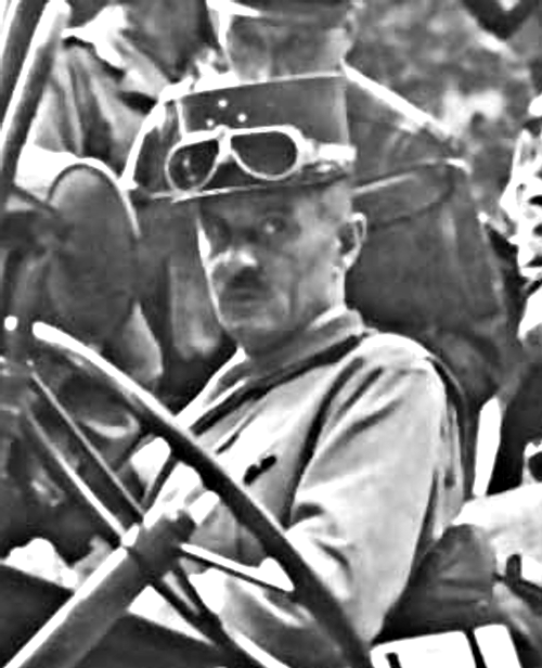 General Philippe Leclerc de Hautecloque